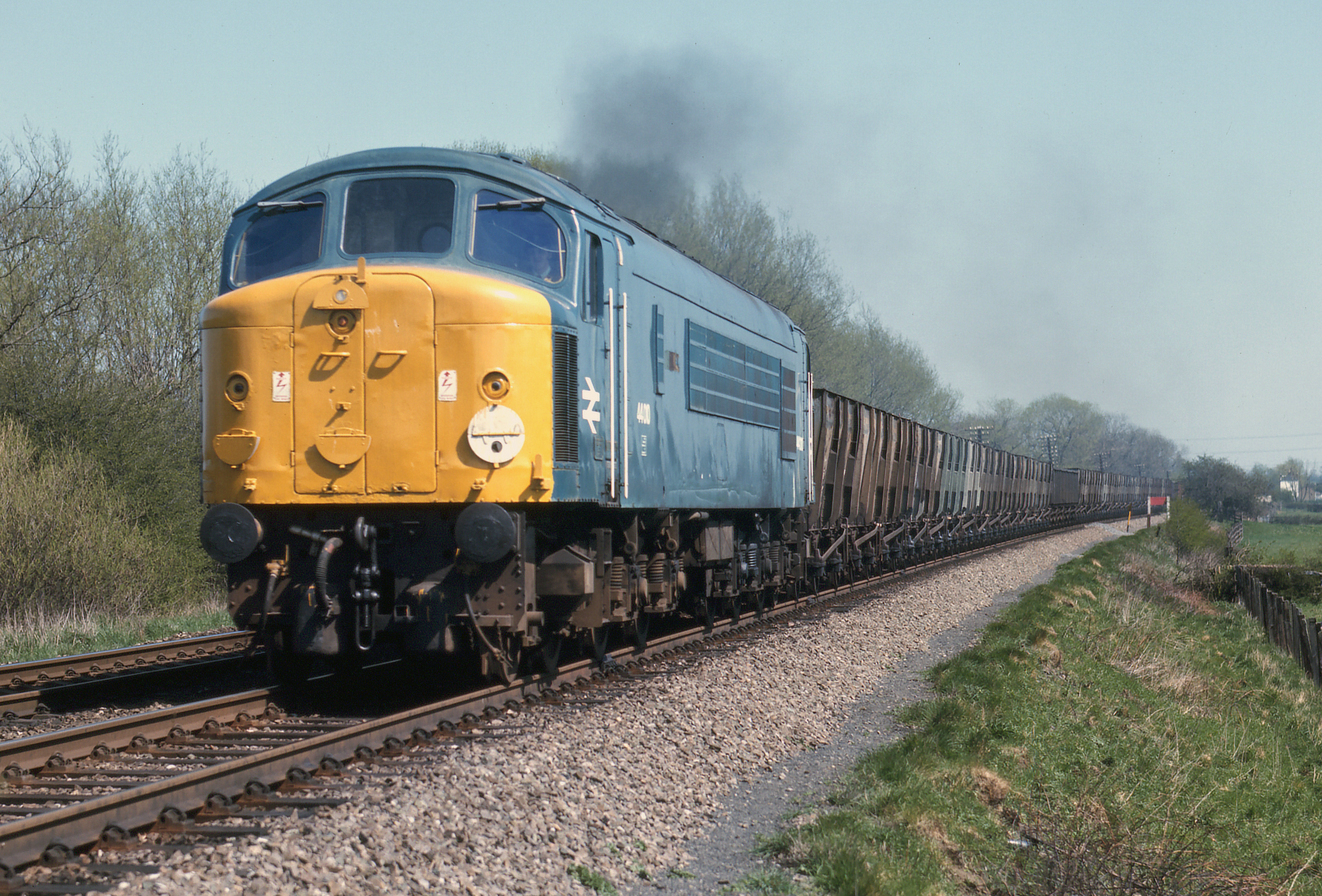 Class 44, no. 44010 "Tryfan" on a westbound train, west of Frisby on the Wreake, Leicestershire, 20/4/76.